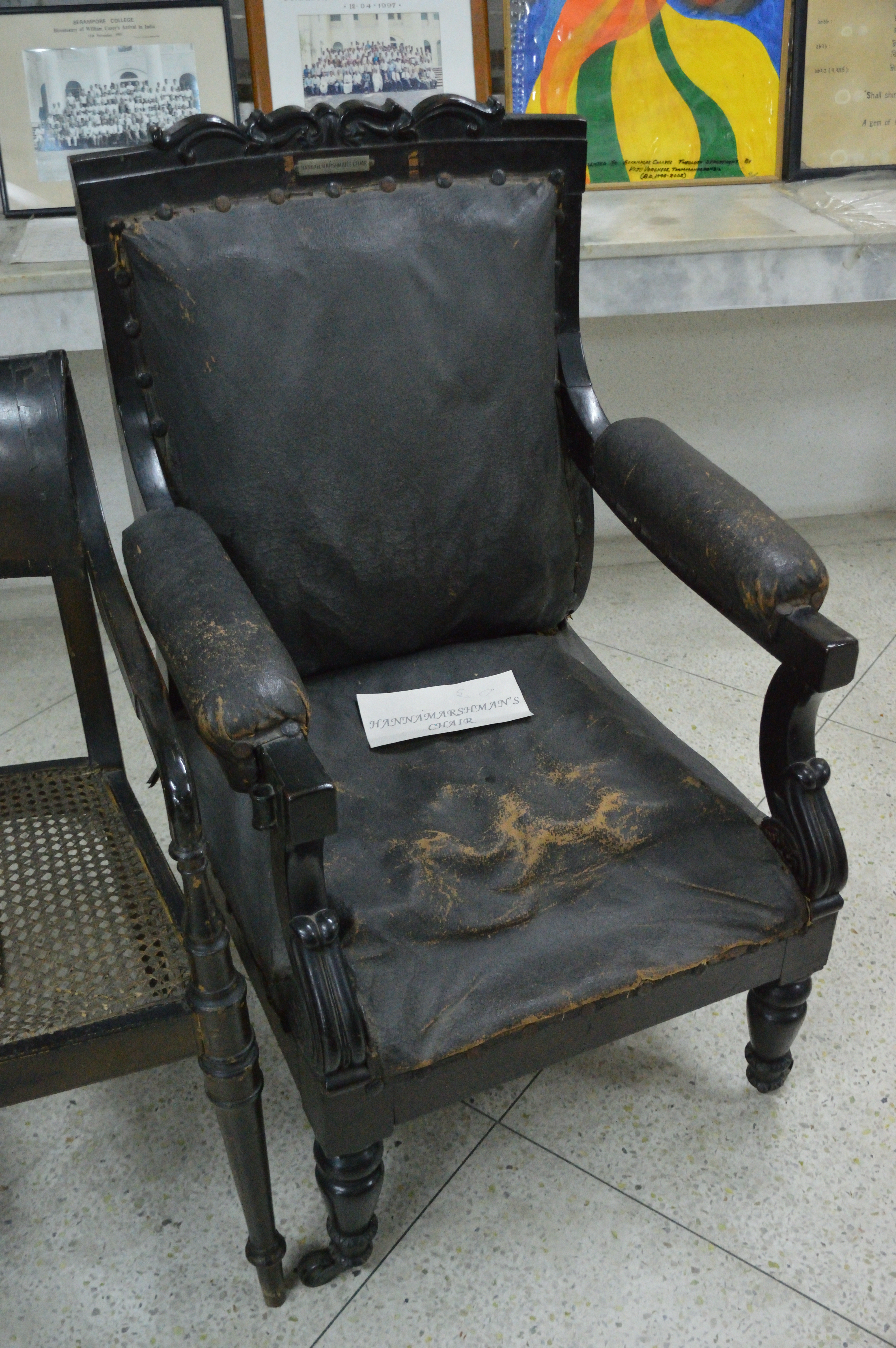 Photographed at Serampore, Hooghly.